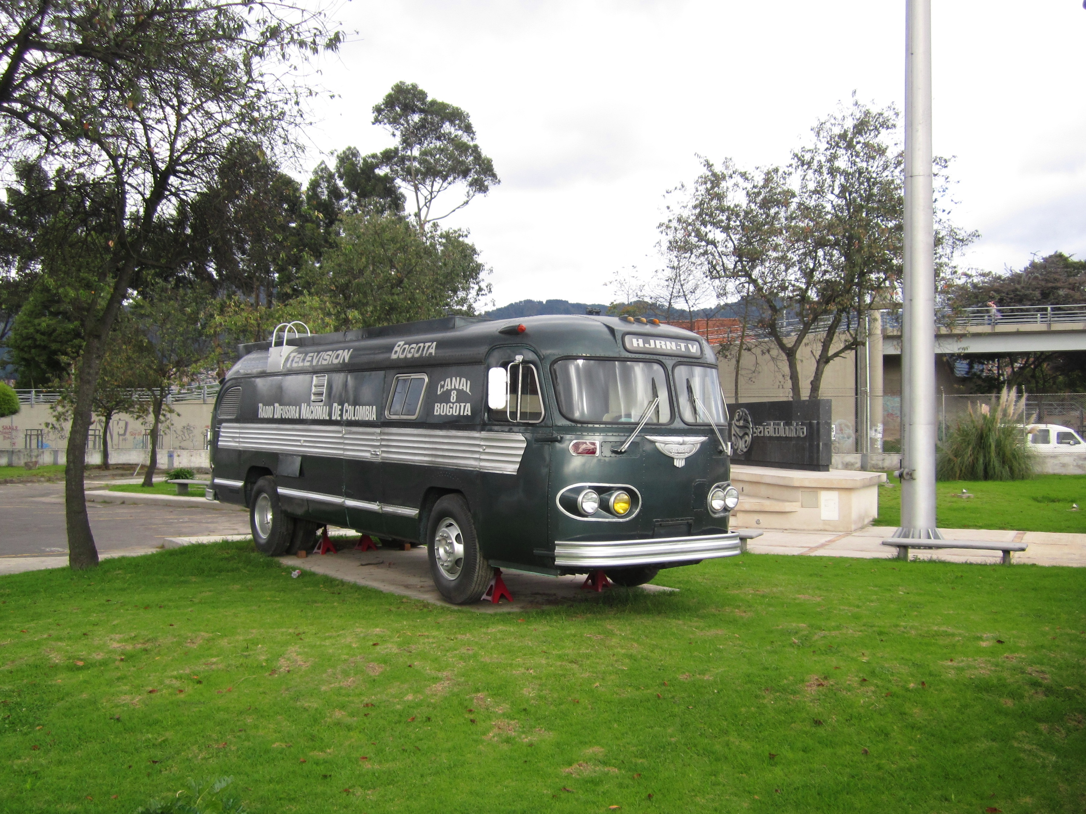 Bogotá